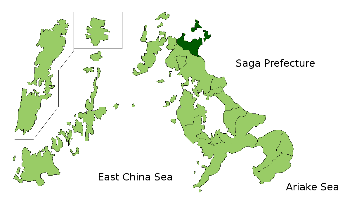 The location of Matsuura in Nagasaki Prefectuur, Japan